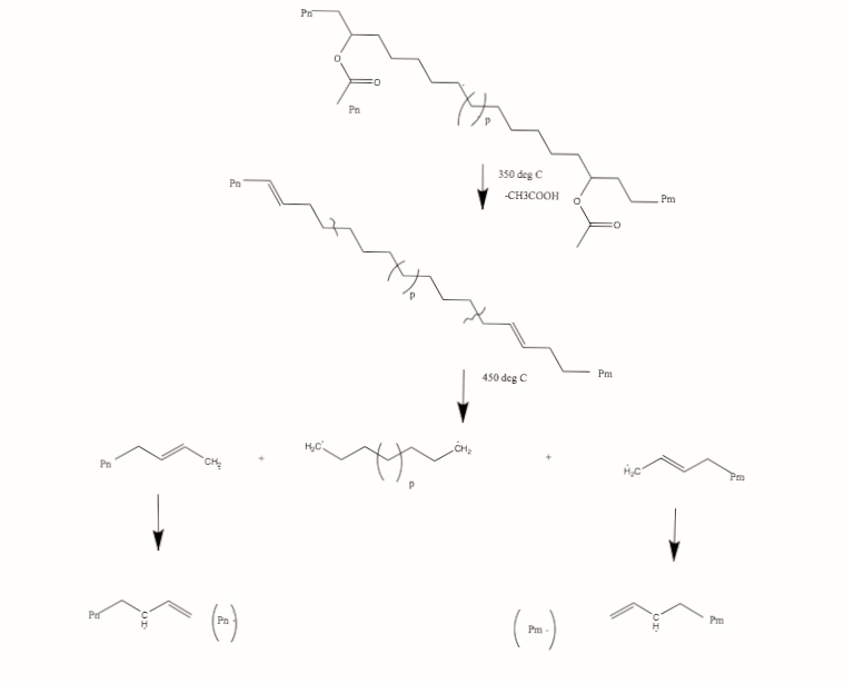 Thermal Degradation of EVA by allylic scission.